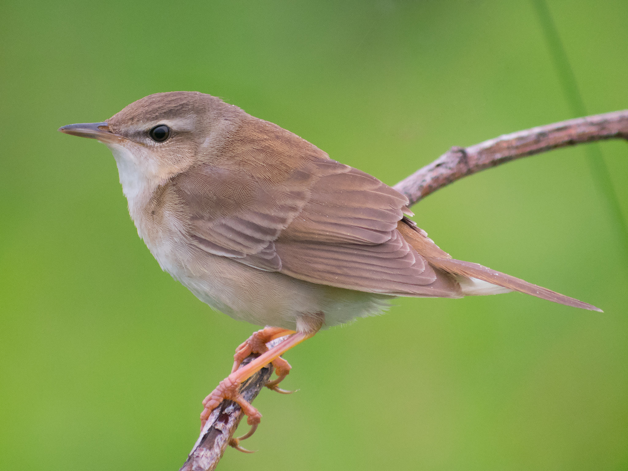 Locustella ochotensis,Middendorff's grasshopper warbler. Place:Hokkaido,Japan